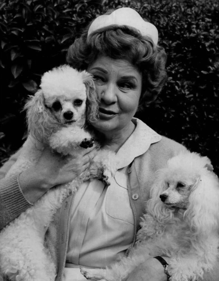 Shirley Booth with her two dogs Grazie (left) and Prego between takes on the set of the television program Hazel.